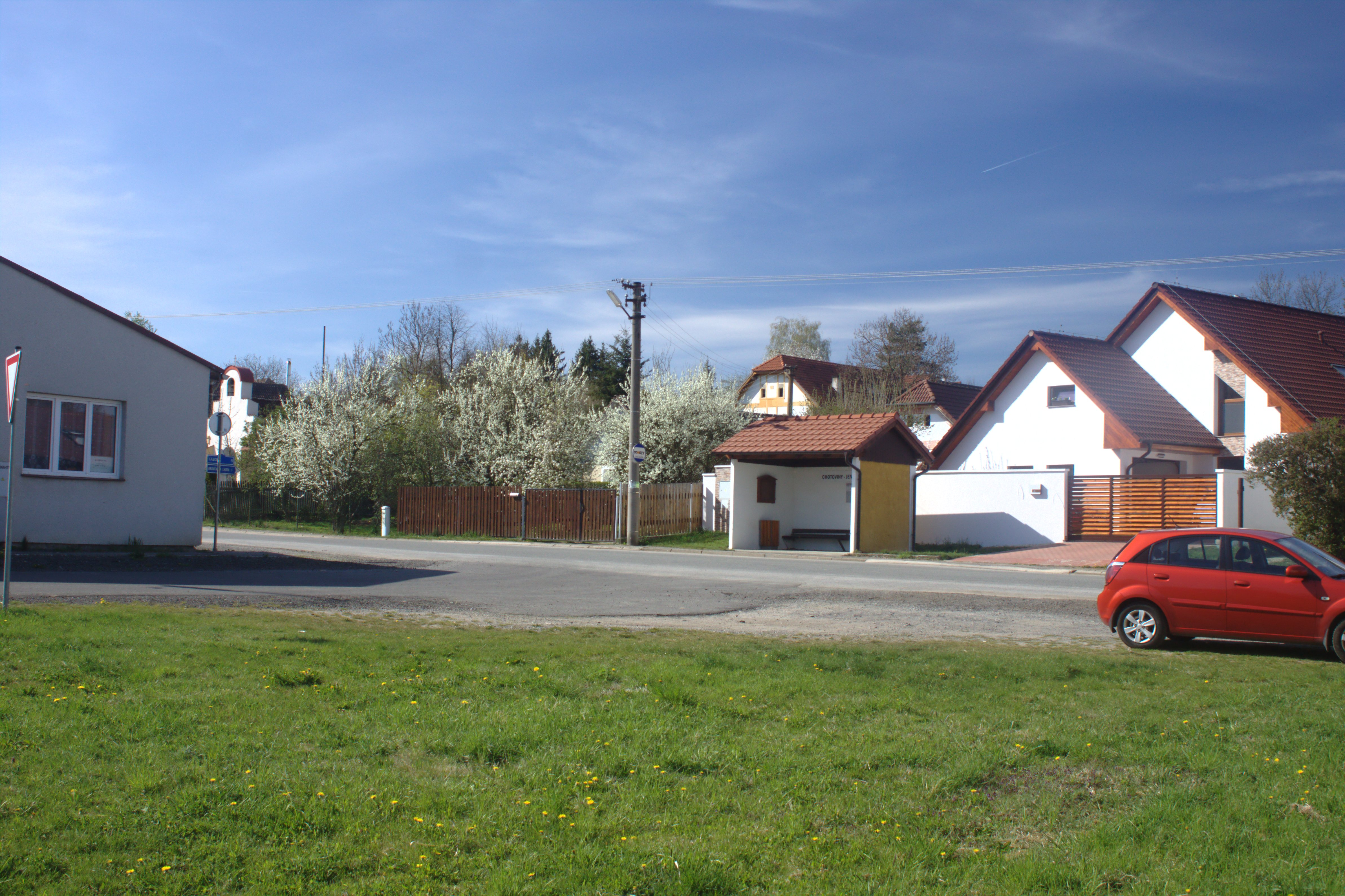 This photograph was created as a part of Wikiexpedition Mladá Vožice, a project supported by Wikimedia Foundation grant.